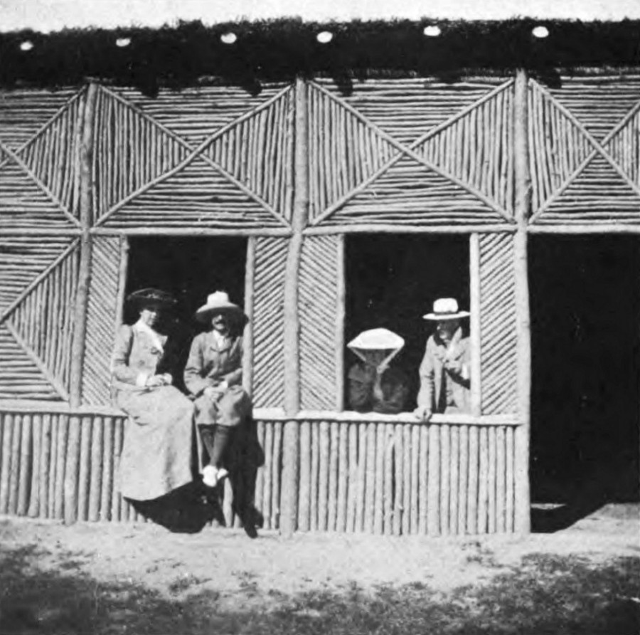 "Lake Como Golf Club. Lady Margaret and the Hon. F. Hamilton-Russell, Miss Flambrough and the Hon. Osmund Scott in the club-house at Lake Como." From "The King and His Navy and Army", 1905, page 354.